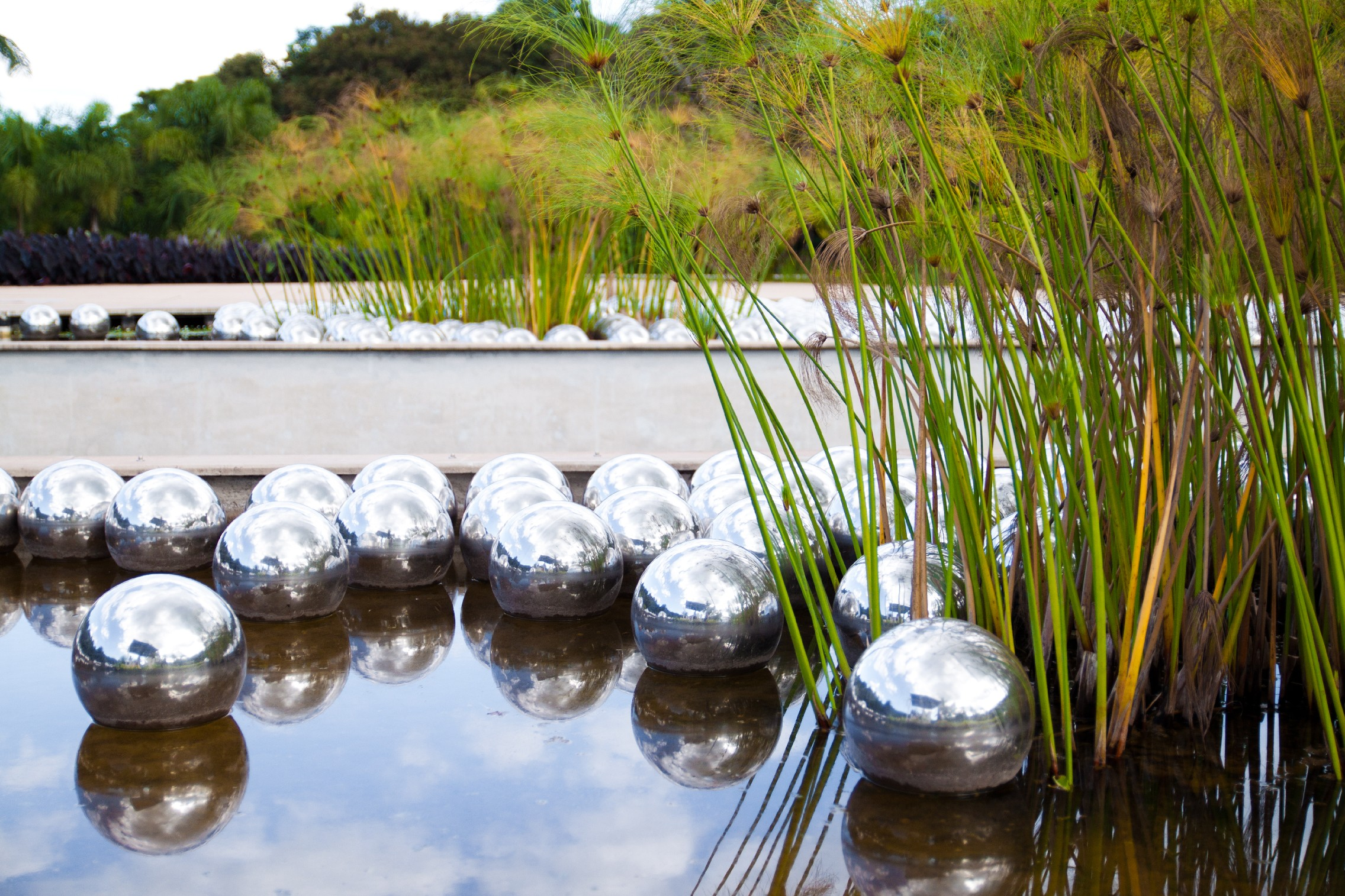 Artwork "Narcissus Garden" by Yayoi Kusama at Inhotim in Brumadinho/Brazil